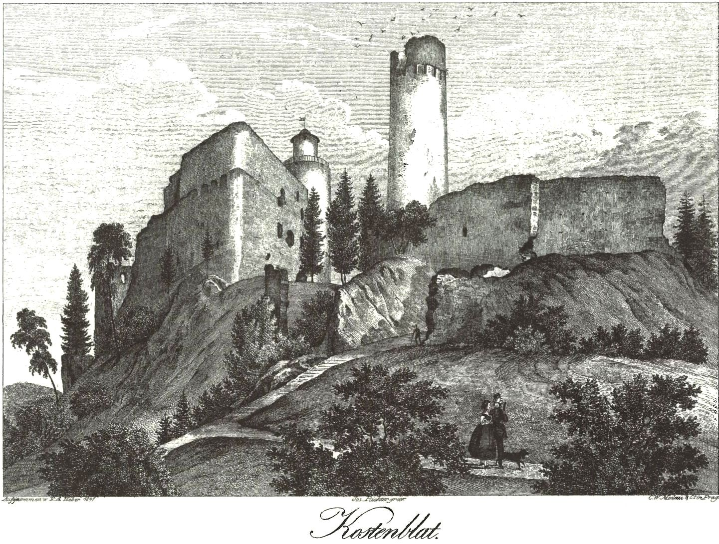 Kostomlaty Castle in Czech Republic on F. A. Heber´s picture from 1841